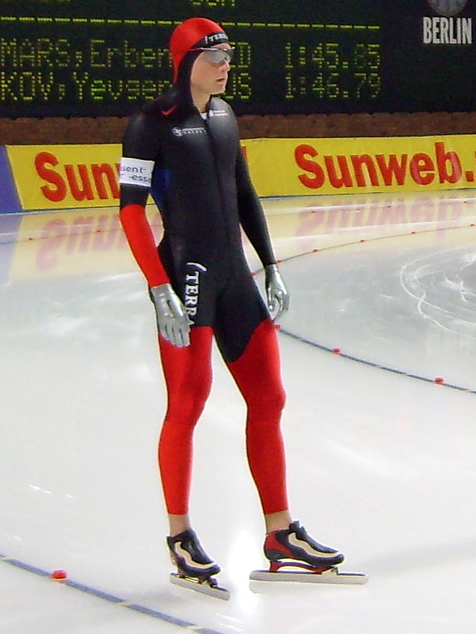 Håvard Bøkko (NOR) befor 1500 meters world cup speedskating race in Berlin, Germany.